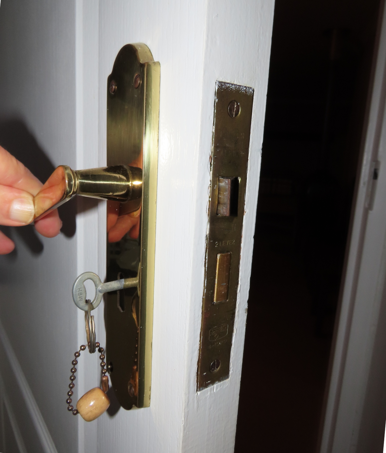 The lever of a common form of door handle rotates a revolute joint to retract the tongue of the lock